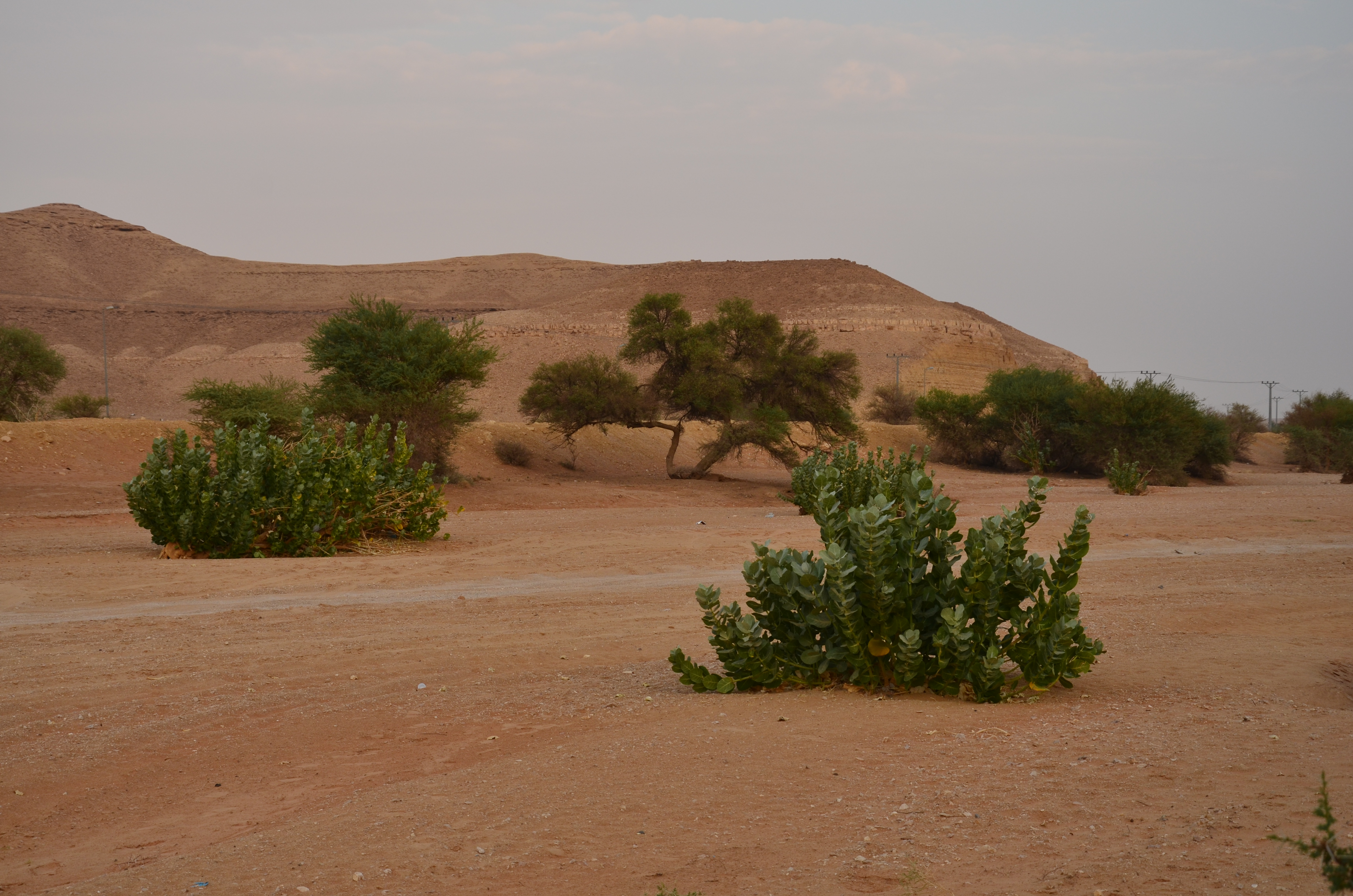 Al Oyainah Al-'Uyayna (Arabic: العيينة) is a village in central Saudi Arabia, located some 30 km northwest of the Saudi capital Riyadh.